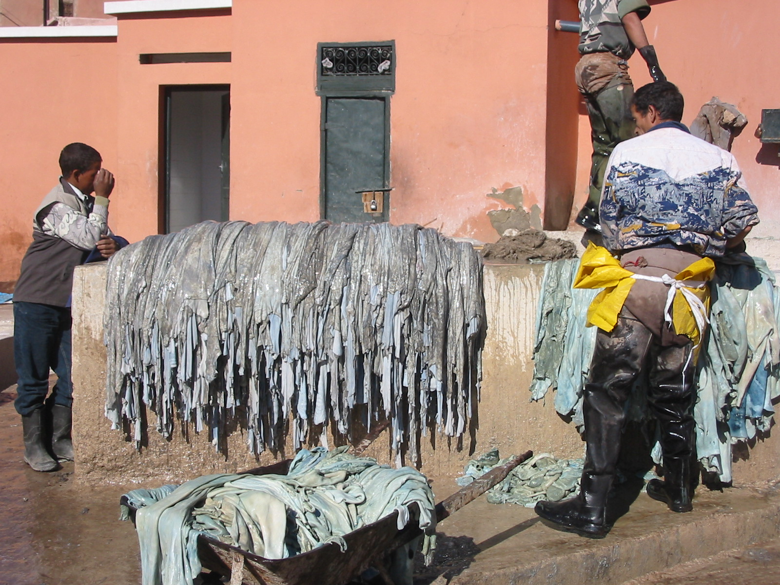 Freshly tanned leather in Marrakech.